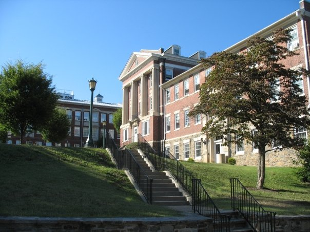 McDaniel College campus view